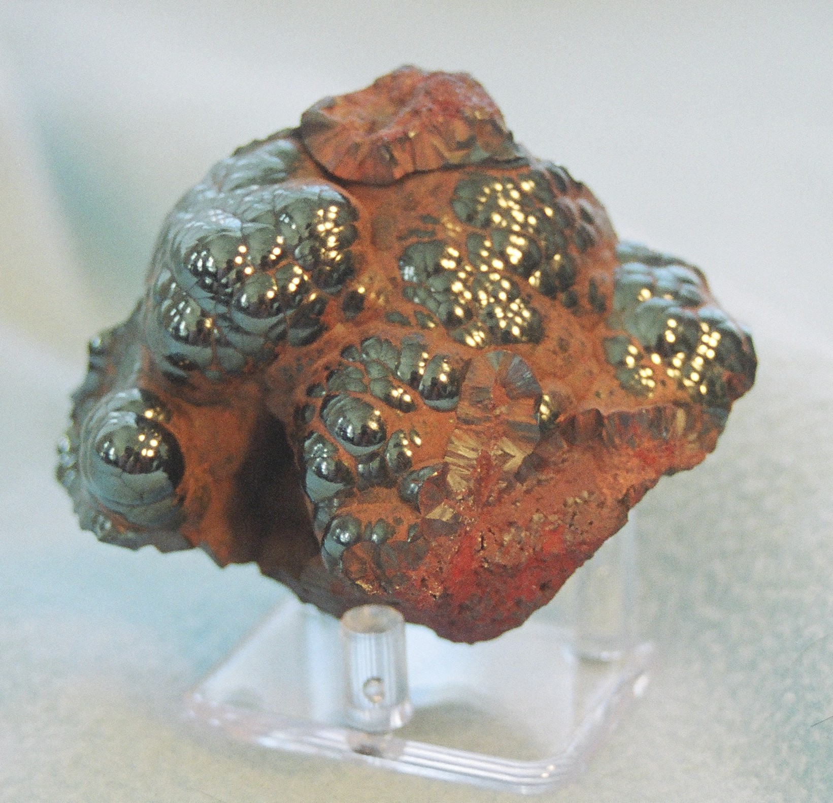 Hematite, taken by myself on 3-13-05. This is Kidney ore hematite from Michigan. The yellow is the reflection of the lamp I used for lighting (which could probably be done better). The surface is very shiny. Hematite is a type of iron ore.